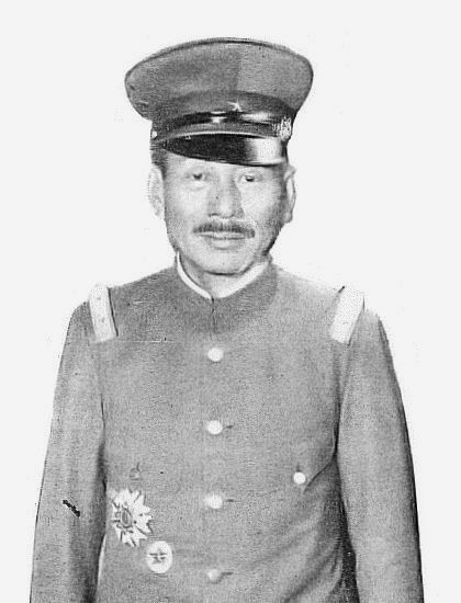 Iwane Matsui